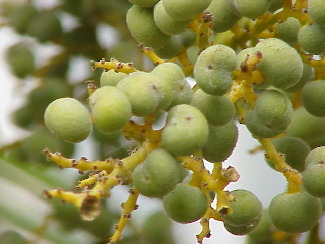 Species: Trachycarpus fortunei Family: Palmae Image No. 1